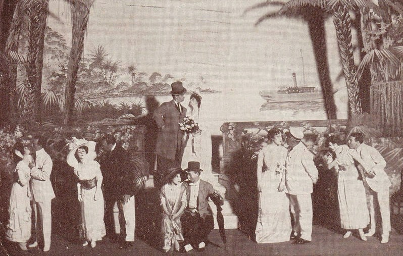 Richard Carle (center, seated) & Company in a scene from Jumping Jupiter, Cort Theater, Chicago - postcard (cropped : see source)